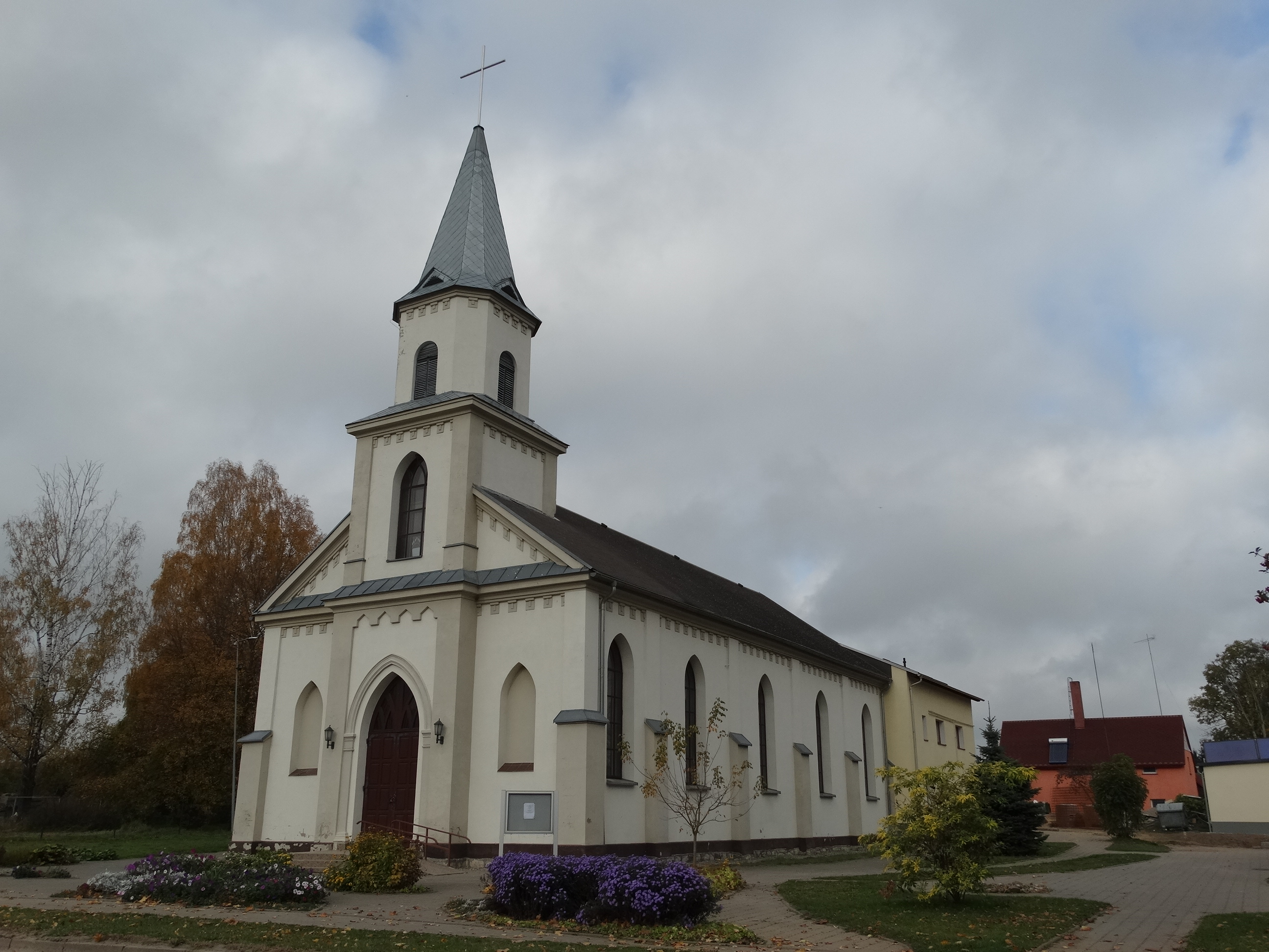 Evangelical Lutheran Church in Šakiai, Lithuania